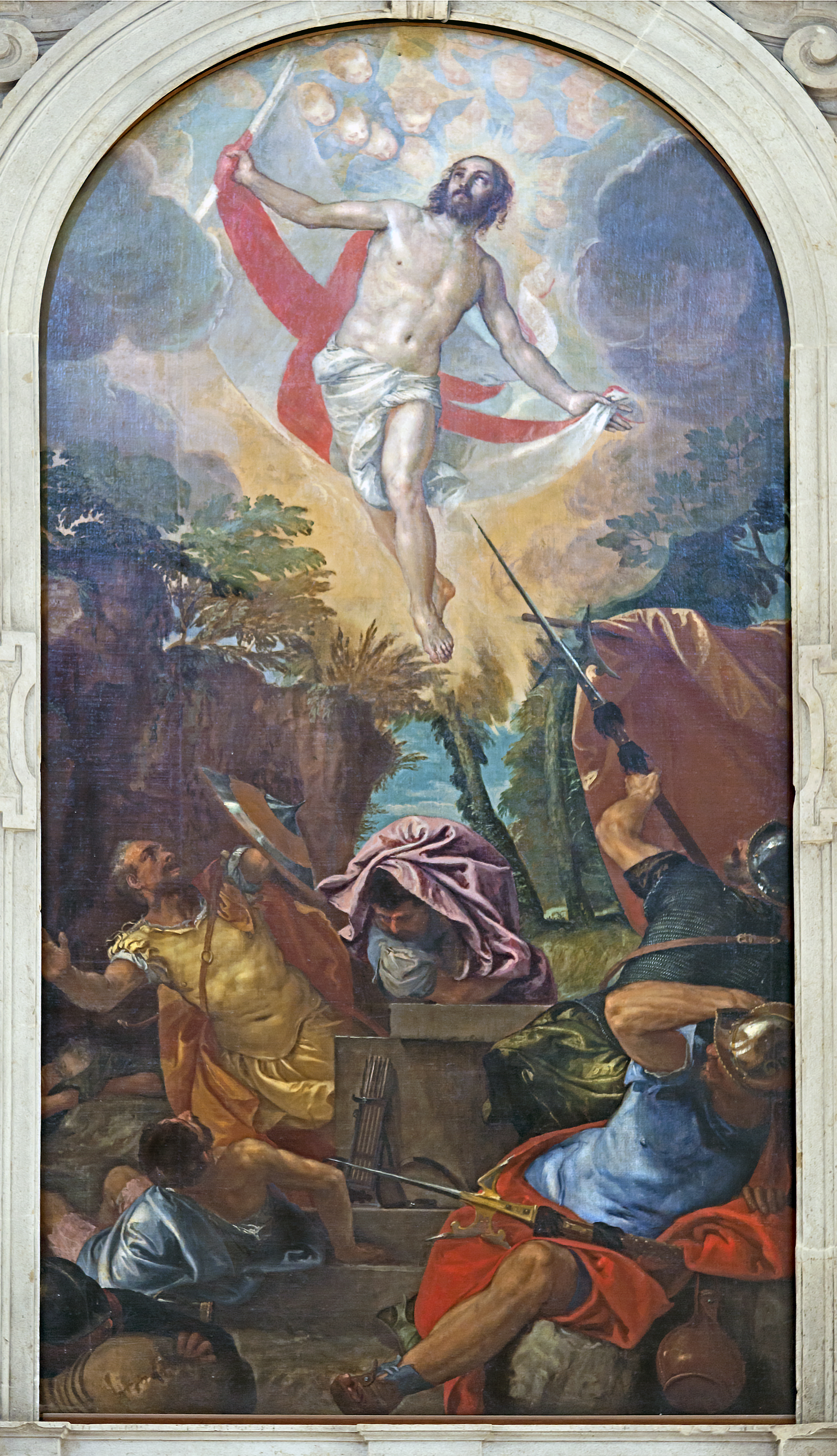 Malipiero Badoer chapel in San Francesco della Vigna. ‘’The resurrection of Christ’’ by Paolo Veronese.